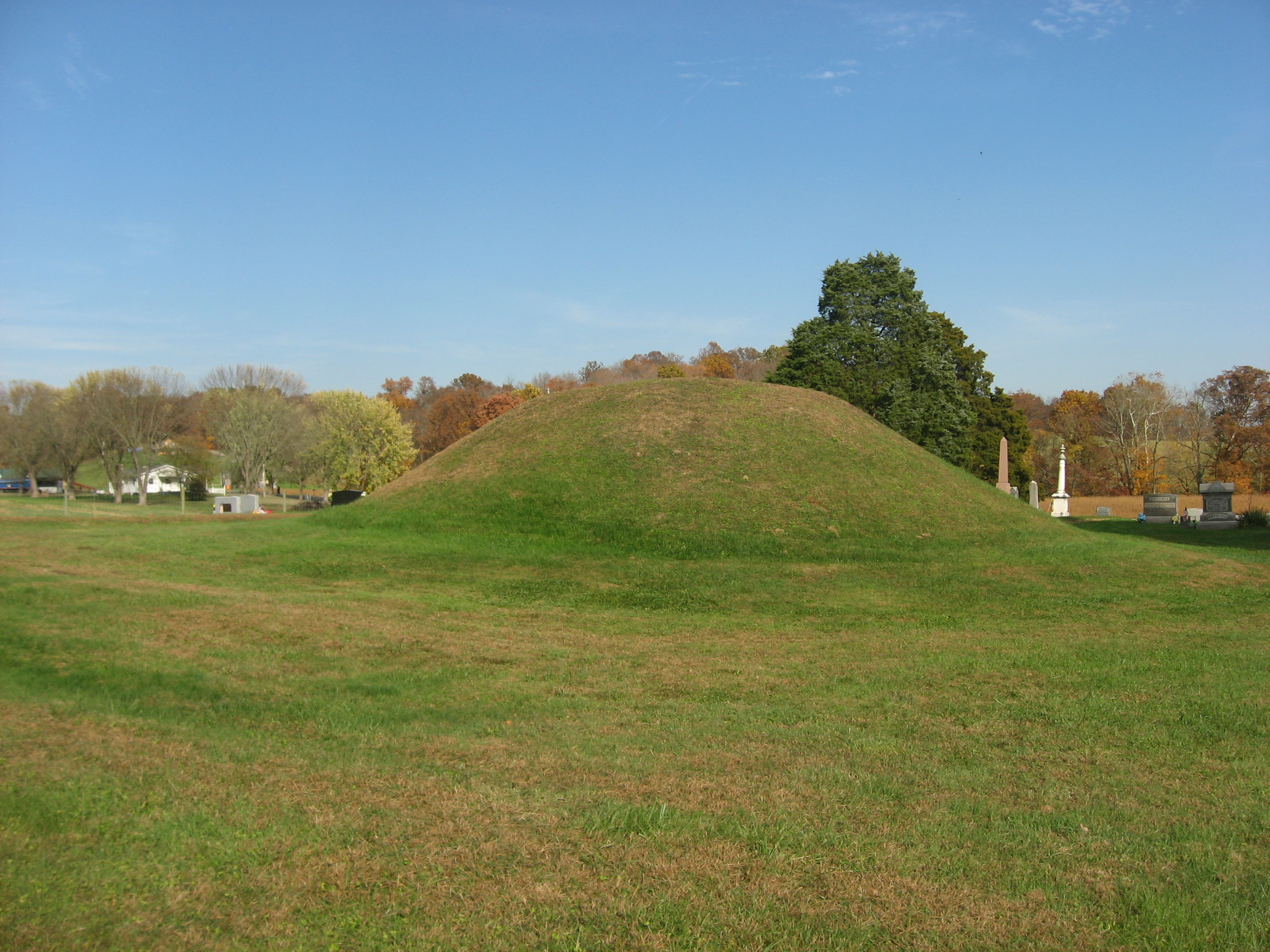 View from the west of the Mound Cemetery Mound, located in Mound Cemetery along County Road 36 north of Chester in Chester Township, Meigs County, Ohio, United States. Built by the prehistoric Adena culture, the mound is an archaeological site and is listed on the National Register of Historic Places.